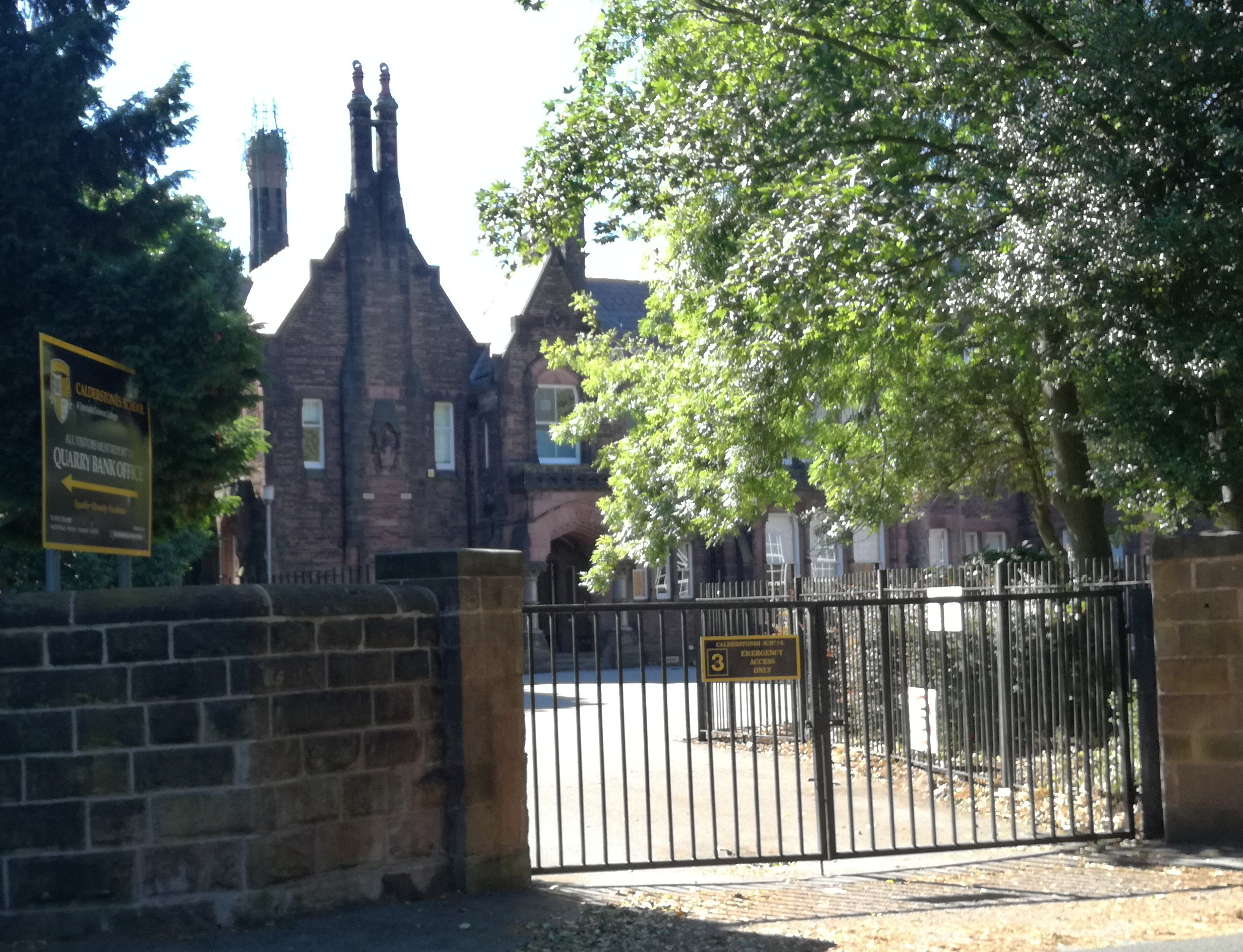 Quarry Bank High School (currently Calderstones School), Liverpool.